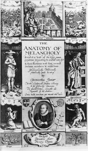 Front page of Anatomy of Melancholy